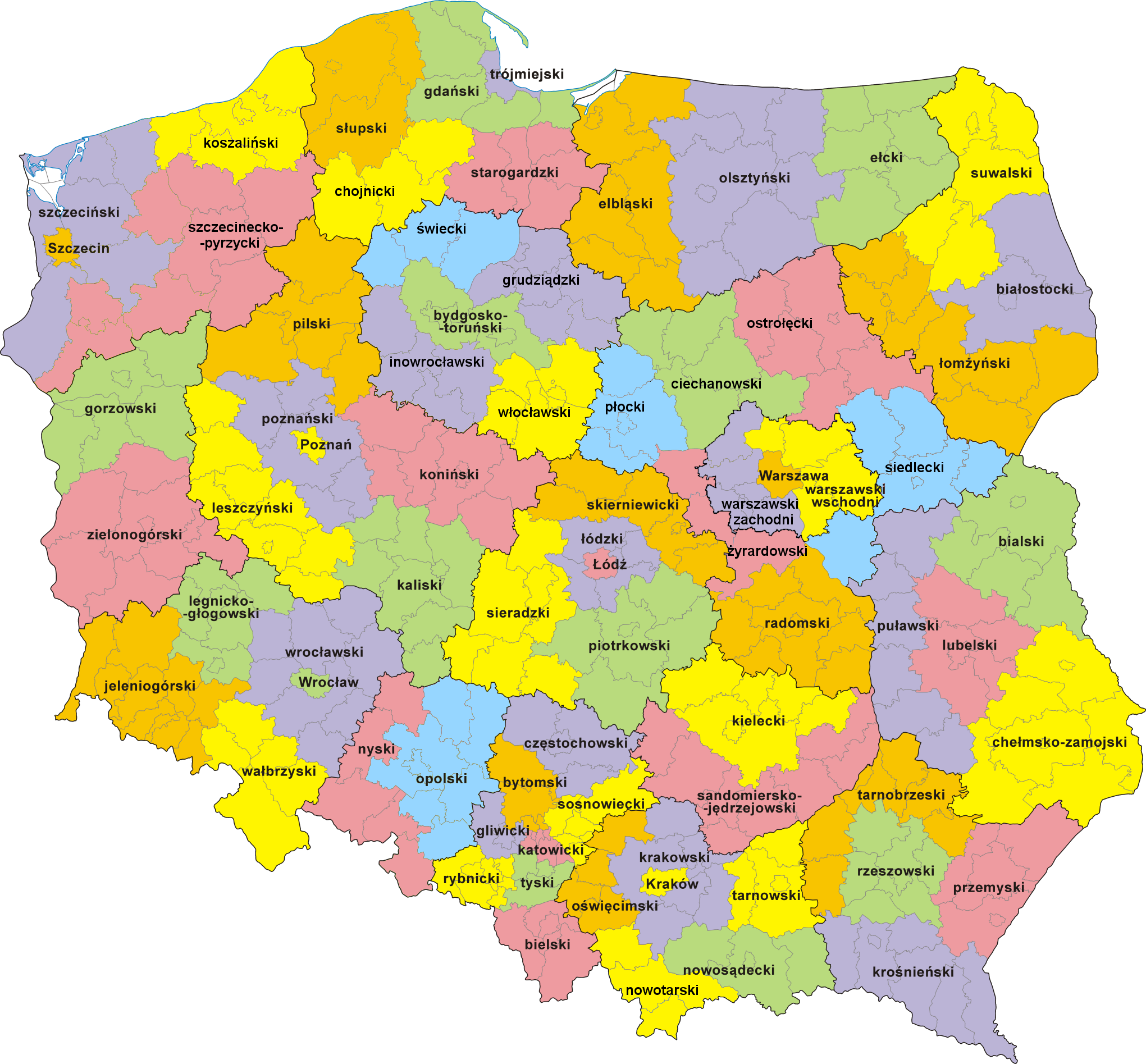 NUTS 3 units of Poland. Valid from January 1, 2018.